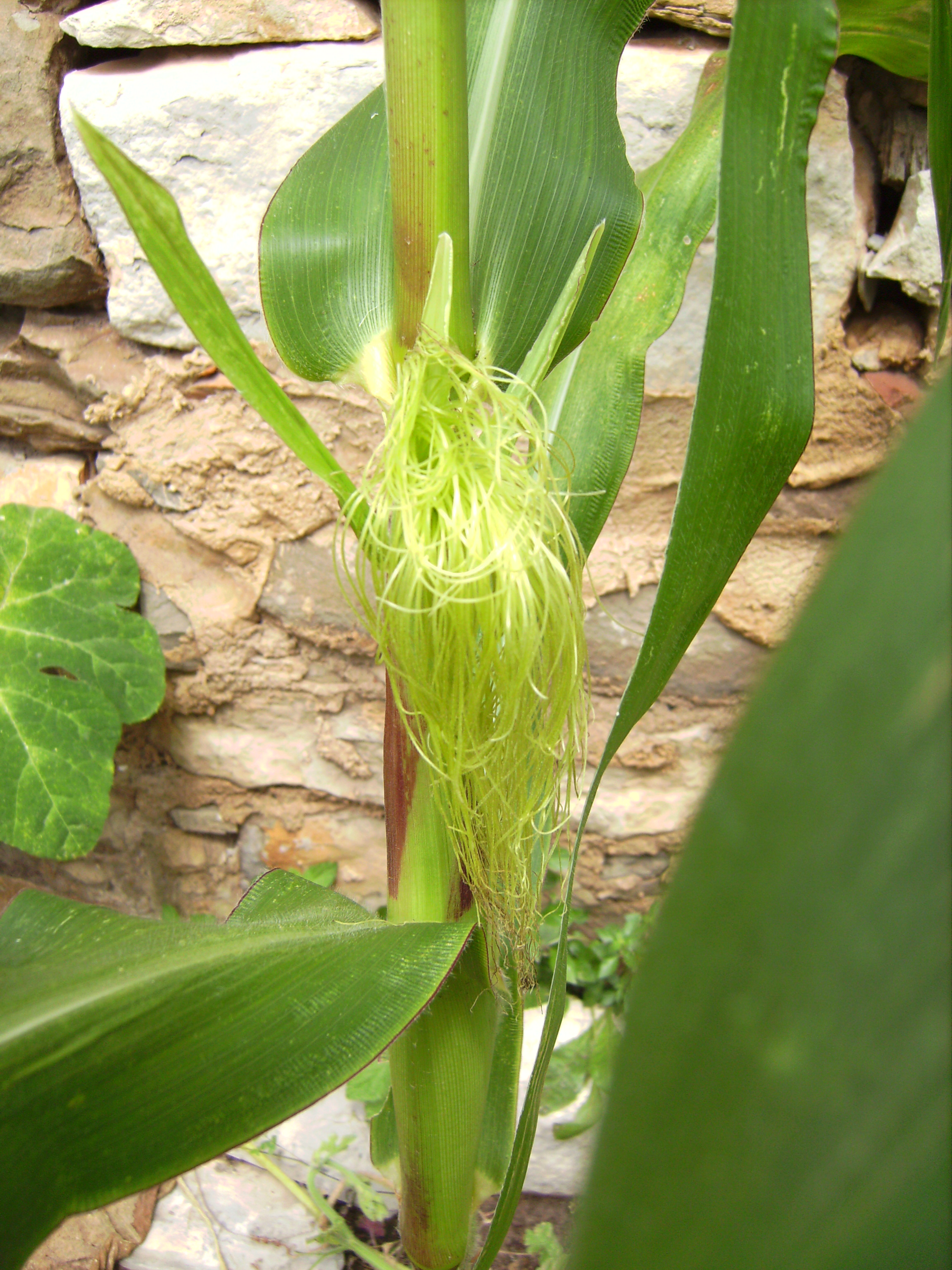 silk of sweet maize female inflorescence in Castelltallat, Catalonia